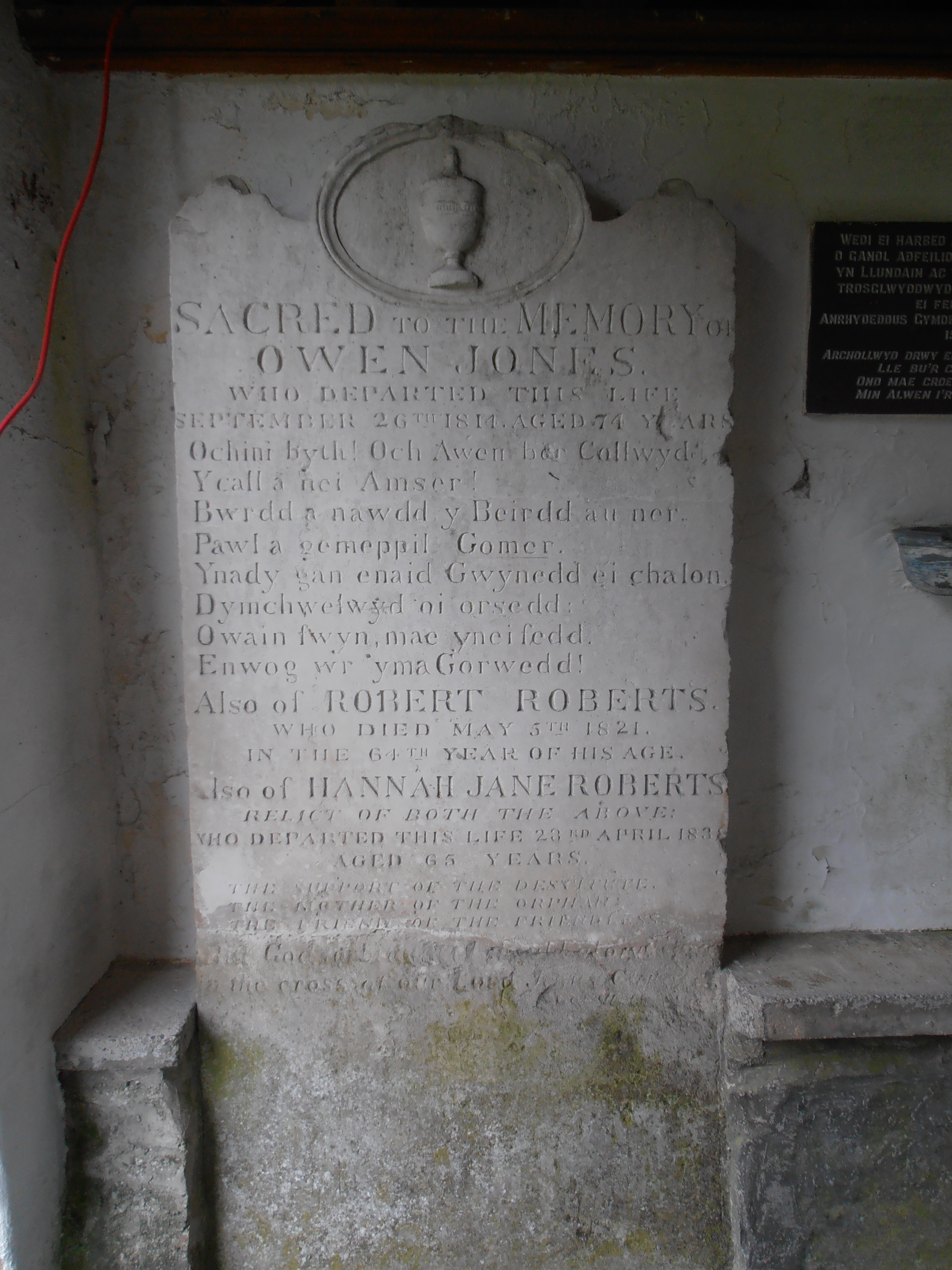 The Church of Llanfihangel Glyn Myfyr, Denbighshire, North Wales.